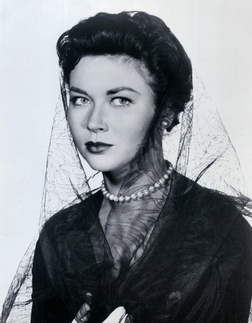 Photo of Gia Scala from an appearance on Goodyear Theater.